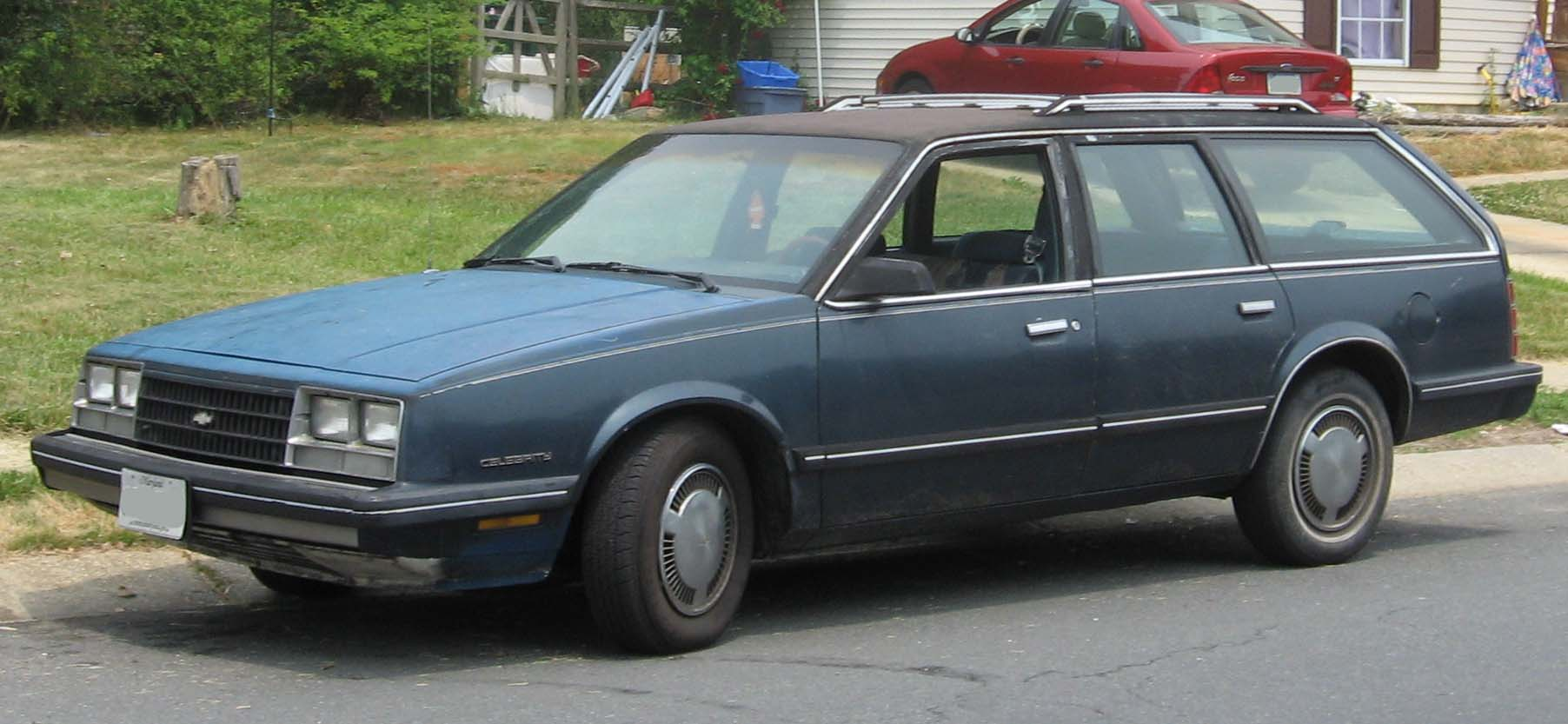 1984-1985 Chevrolet Celebrity photographed in USA.